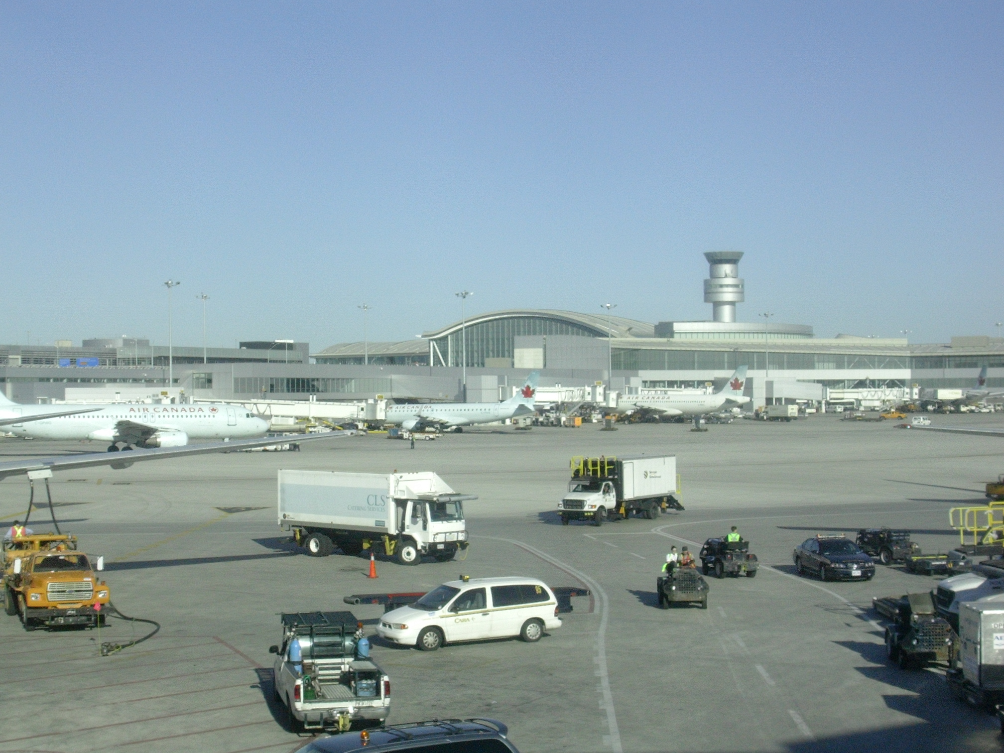 A view of Toronto's Pearson International Airport